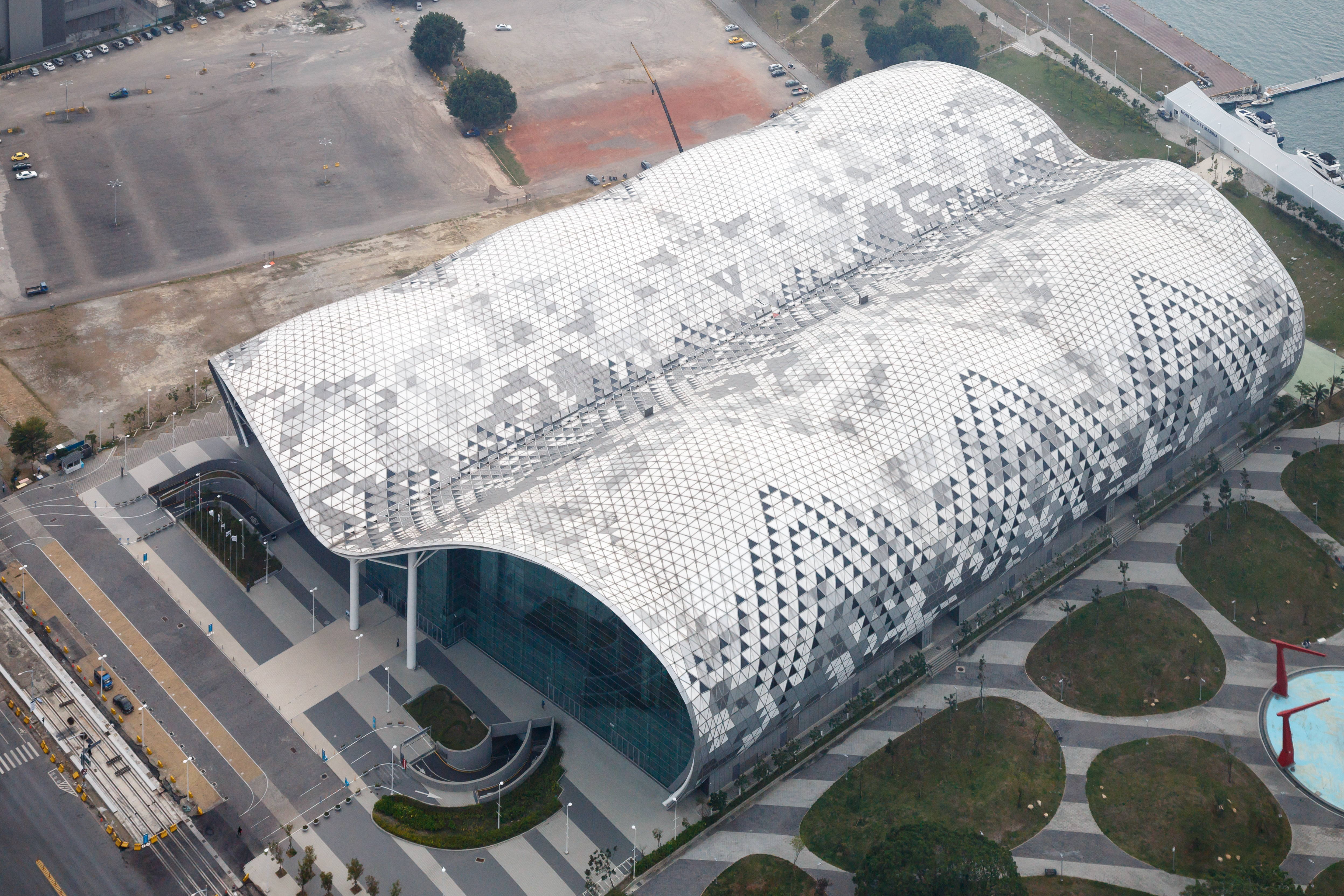 Kaohsiung, Taiwan: Aerial view of Kaohsiung Exhibition Center.